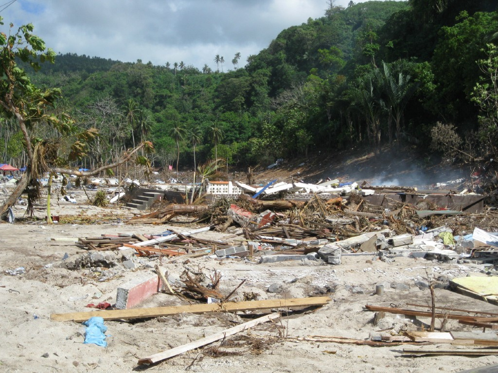 The remains of Lalomanu village after a tsunami struck Samoa in 2009.